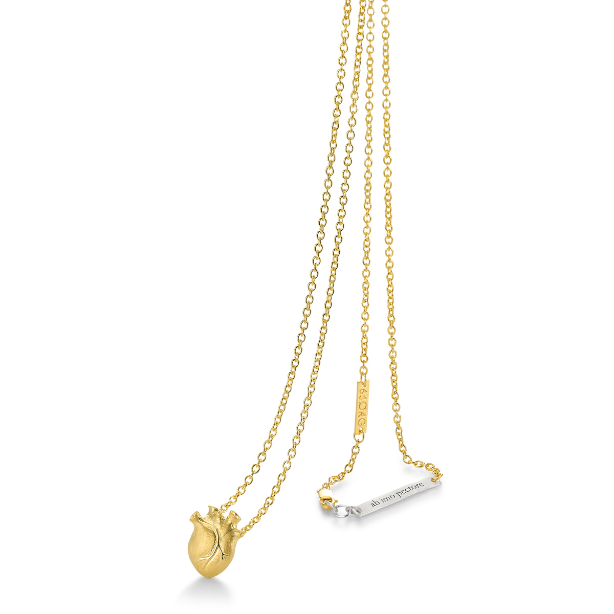 Necklace Gold anatomic heart by the Norwegian designer Bjørg Nordli-Mathisen